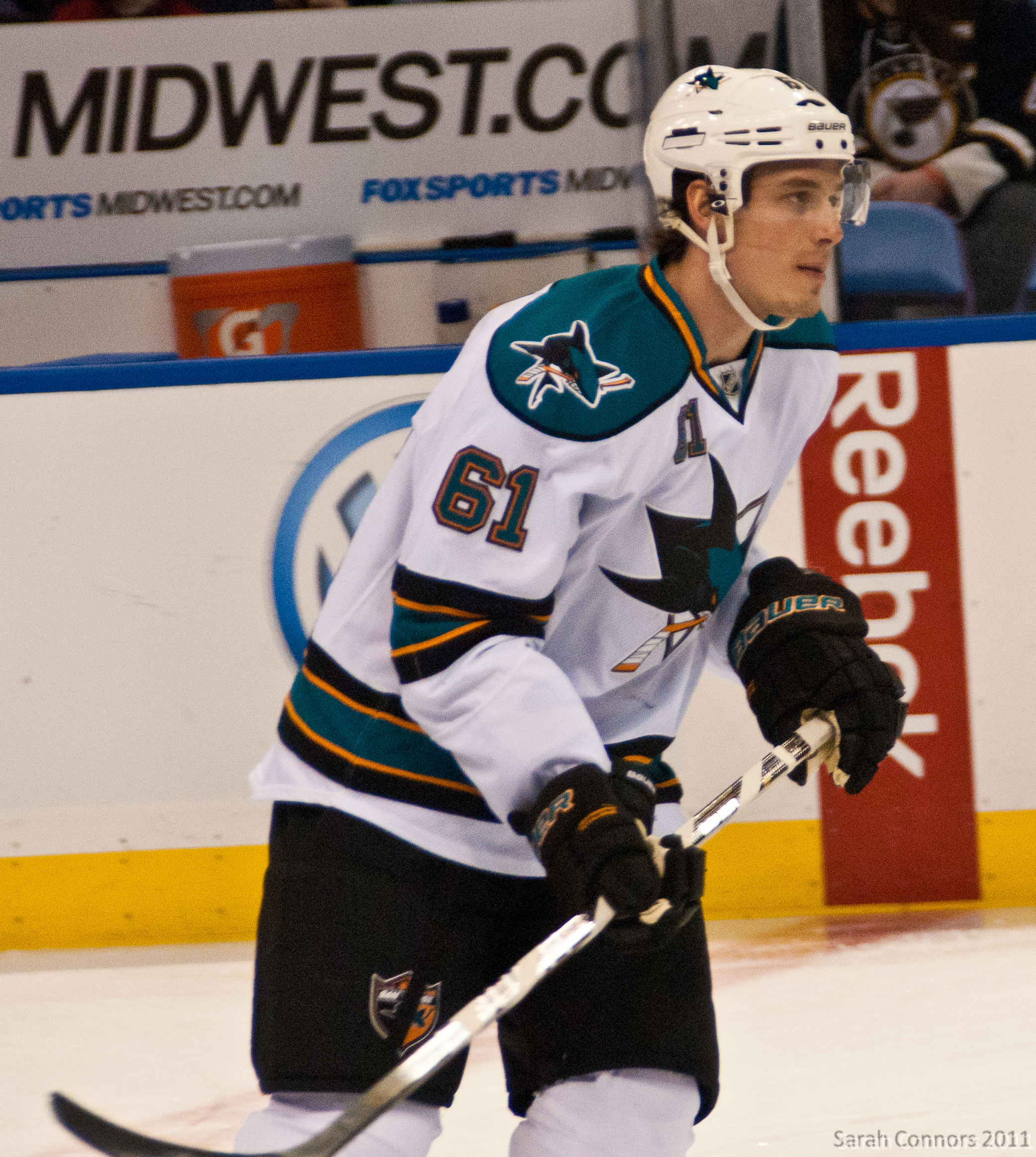 Justin Braun, American ice hockey defenceman